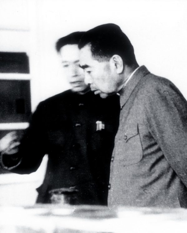 Gu Fangzhou introduced development of polio vaccine to Premier Zhou Enlai in February 1961. 中文（中国大陆）: 1961年2月，顾方舟向视察中国医学科学院医学生物学研究所的周恩来总理介绍脊灰疫苗研发情况。